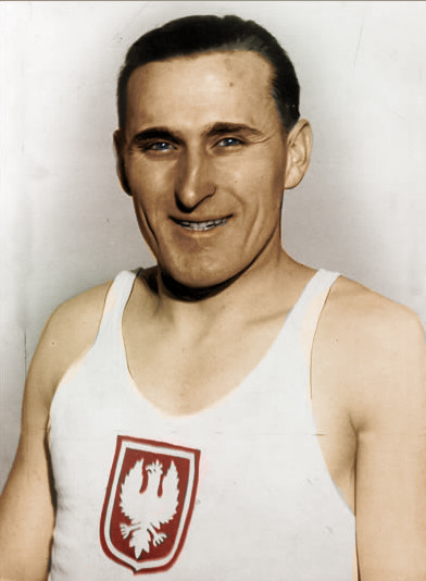 Janusz Kusocinski, Polish sportsman, executed by Nazi-Germans in 1940